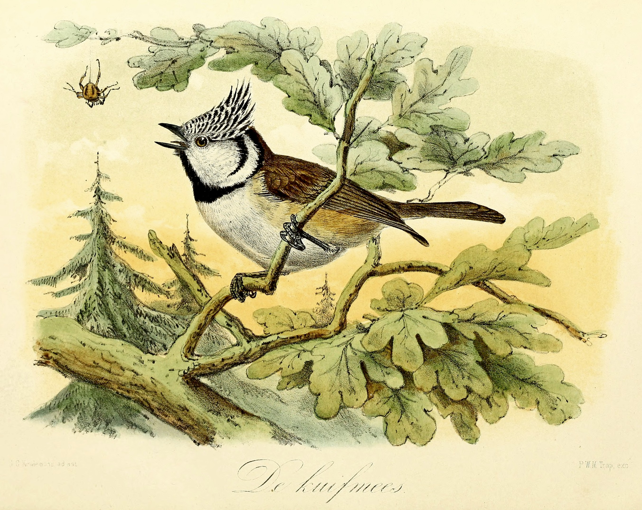 « Parus cristatus » = Lophophanes cristatus (European crested tit)